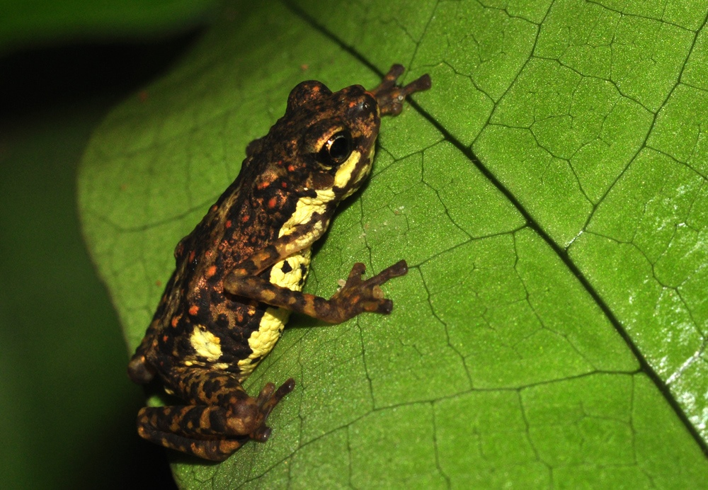 A Saint Andrew's Cross Toadlet (Pelophryne brevipes; lateral view) in Singapore.